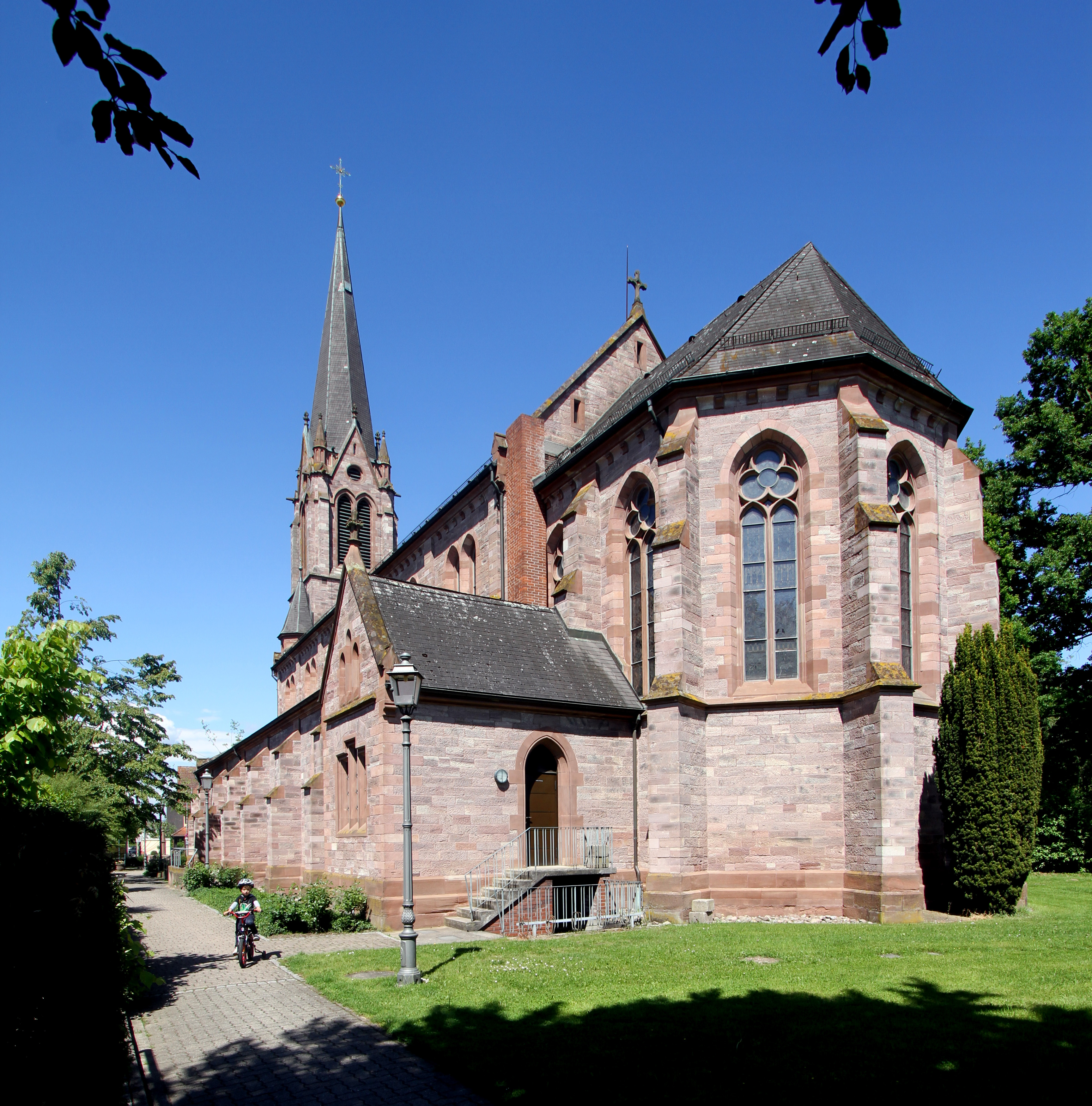 Church of St. Johannes der Täufer in Bühl-Vimbuch.